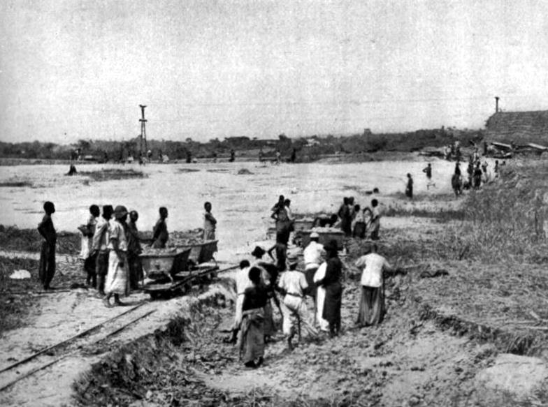 Port of Leopoldville. Natives at Work - p. 172